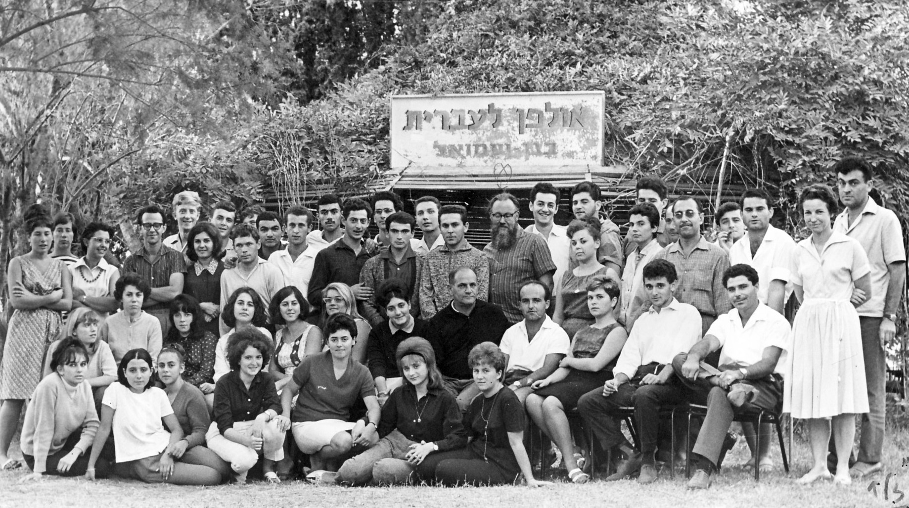 Gan-Shmuel sg1- 19, Education in Israel